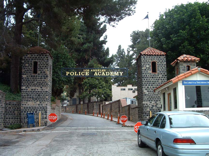 Los Angeles Police Academy in Elysian Park - Photographed by Jeff Costlow 2004